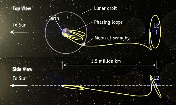 Example of Lissajous orbit around Sun-Earth L2 point